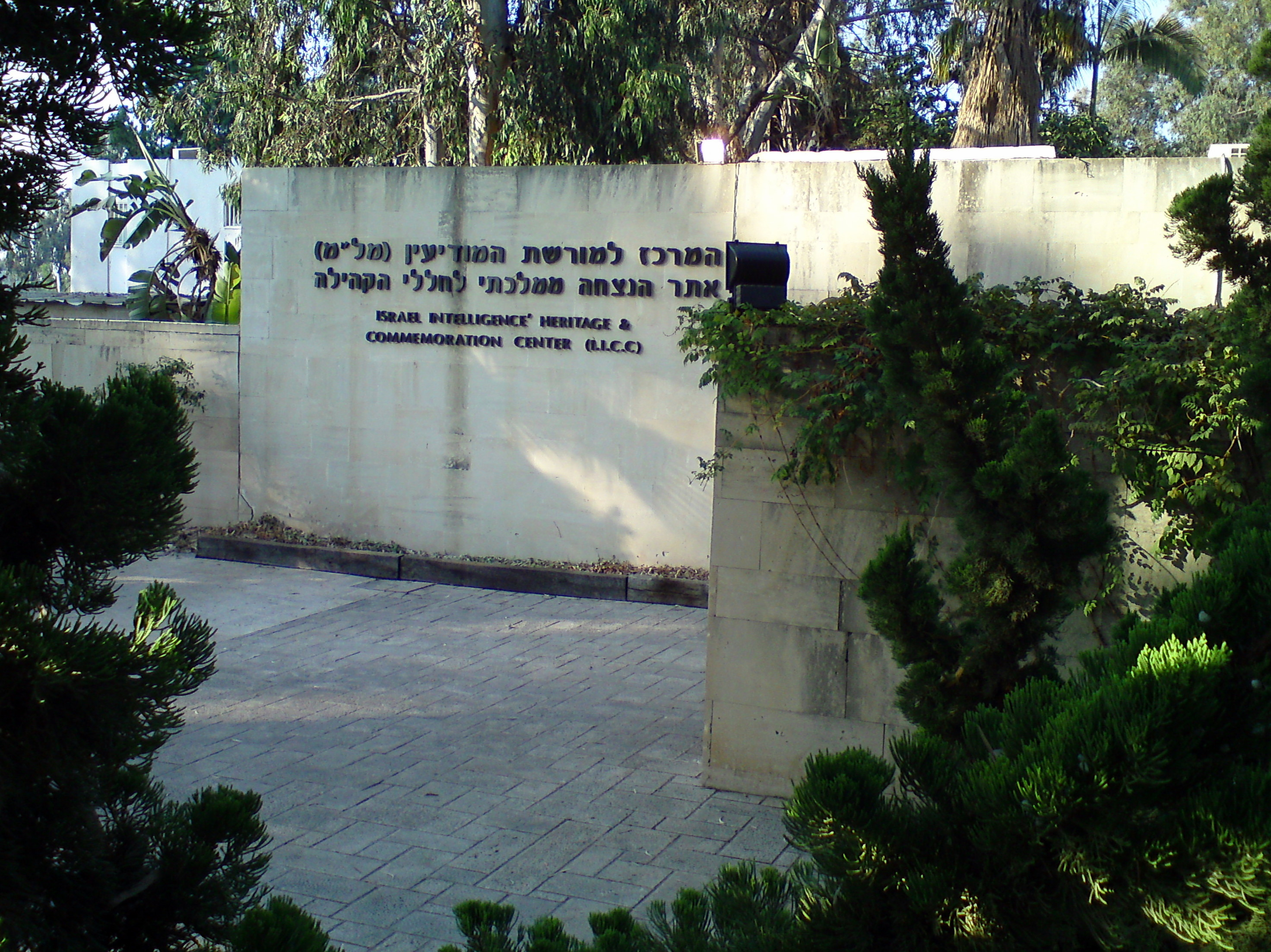 Israel Inteligence Heritage & commemoration Center